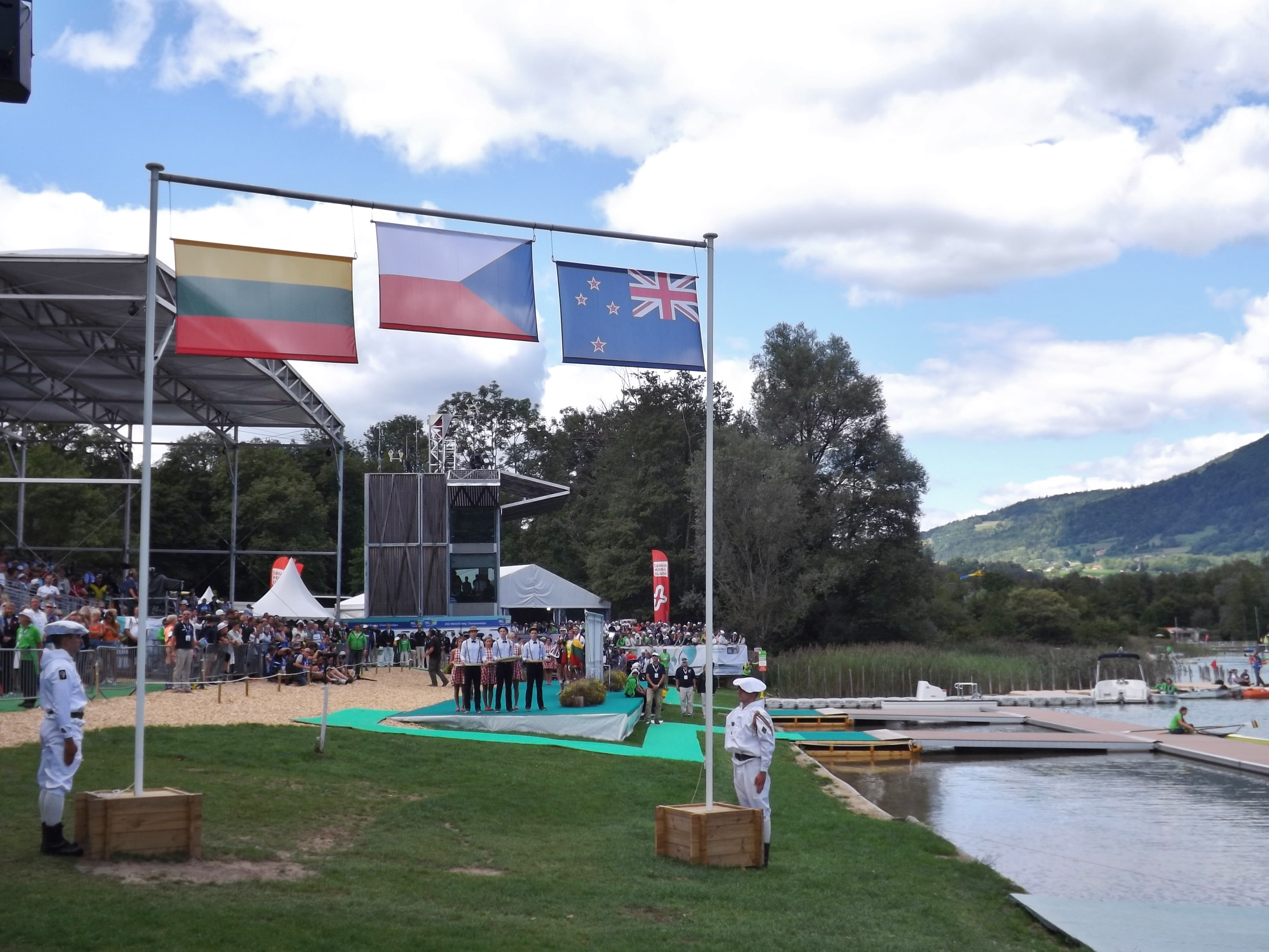 Medals ceremony, won by the Czech Republic, New Zealand and Lituania, during the 2015 World Rowing Championships taking place on the lac d'Aiguebelette lake, in Savoie, France.